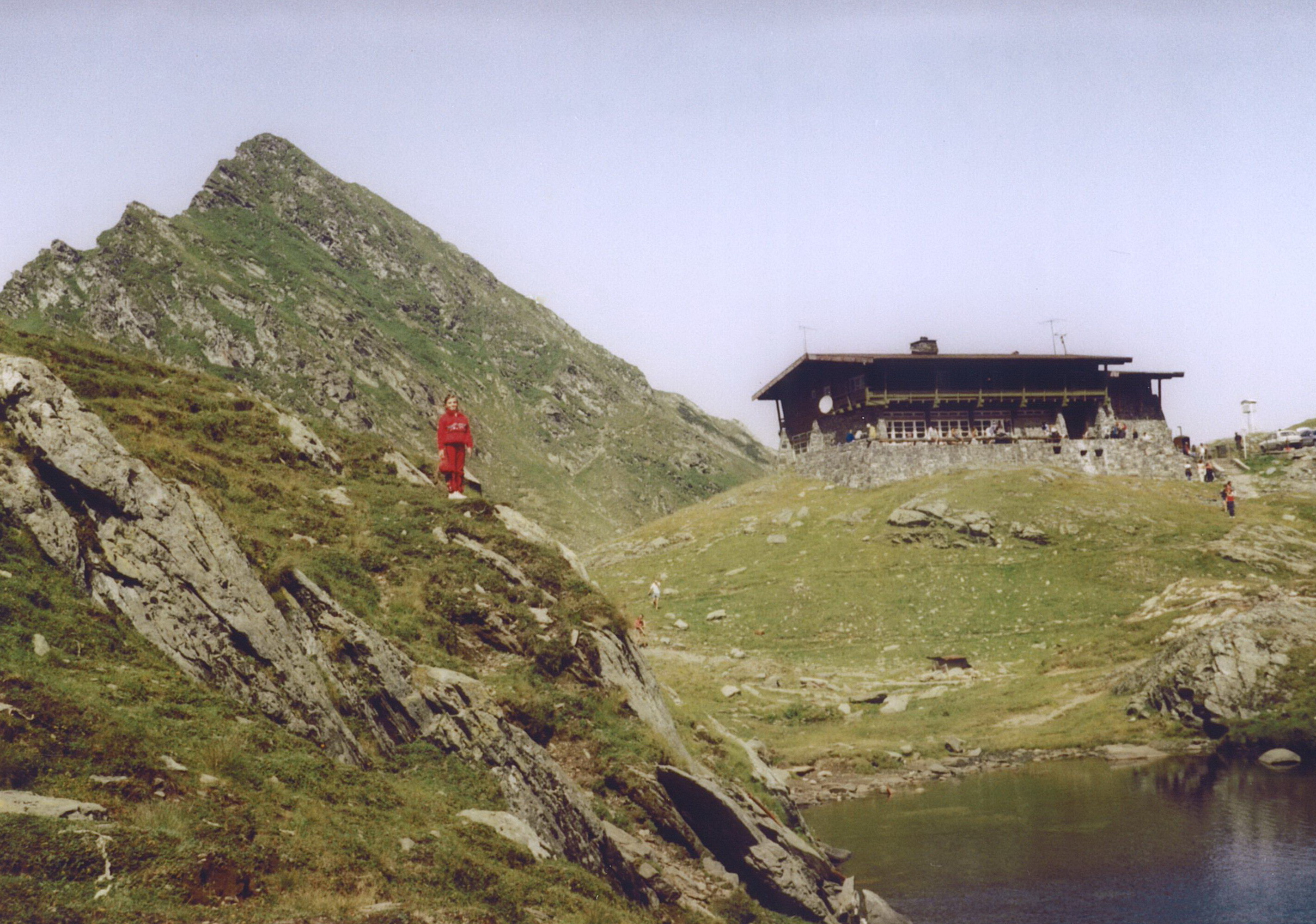 Paltinu Peak